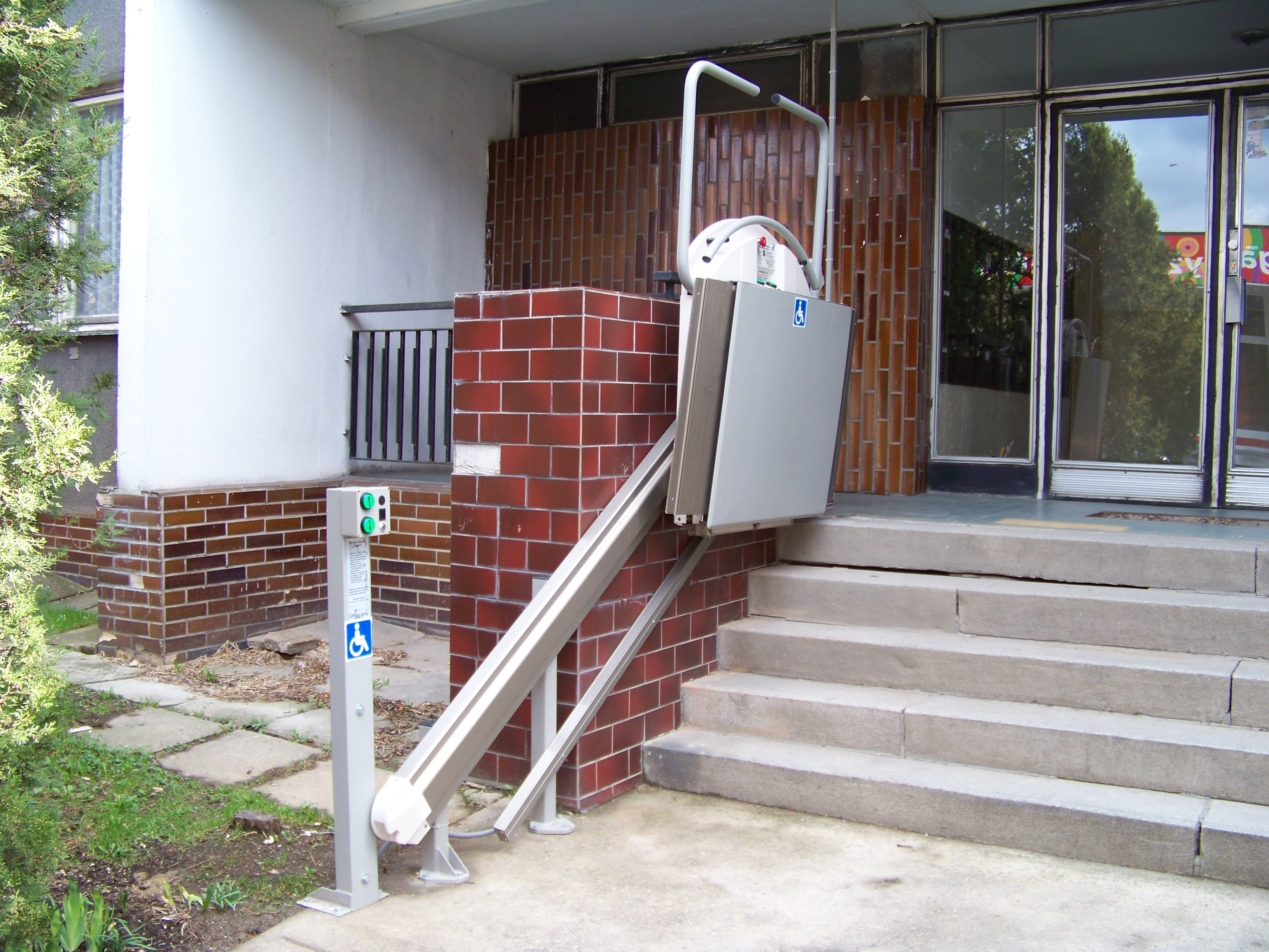 Beroun, Beroun District, Central Bohemian Region, the Czech Republic. U Stadionu Street, a mobility device.